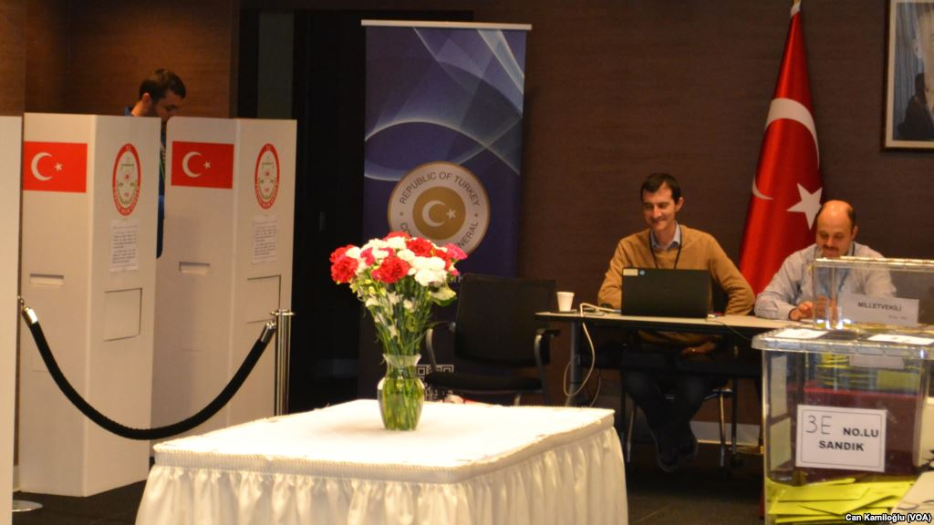 Overseas voting for the November 2015 Turkish general election taking place in New York, October 2015